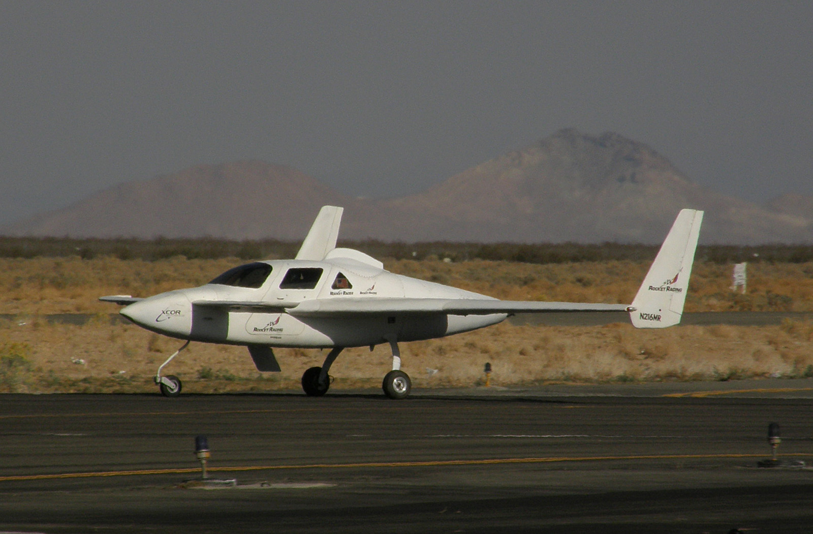 Xcor/Rocket Racing League Rocket Racer landing after its first flight to altitude at the Mojave Spaceport